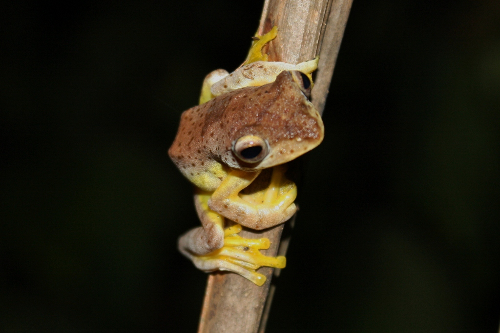 Found next to the Loboc river on Bohol.